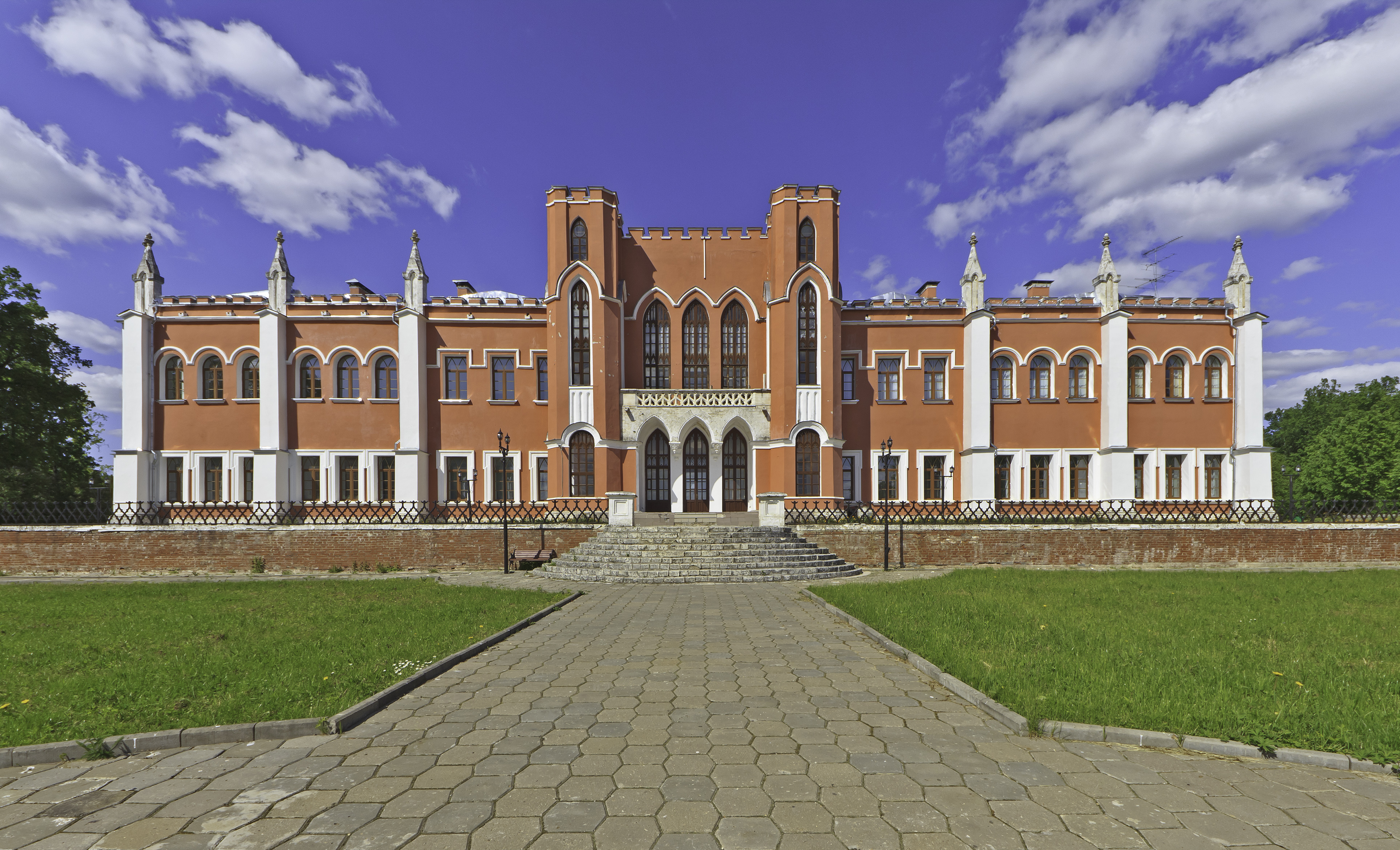 Mytischi District, Moscow Oblast, Russia. The ensemble of the former Marfino Estate. The palace.